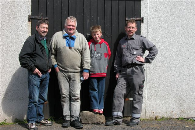 People from Hestur